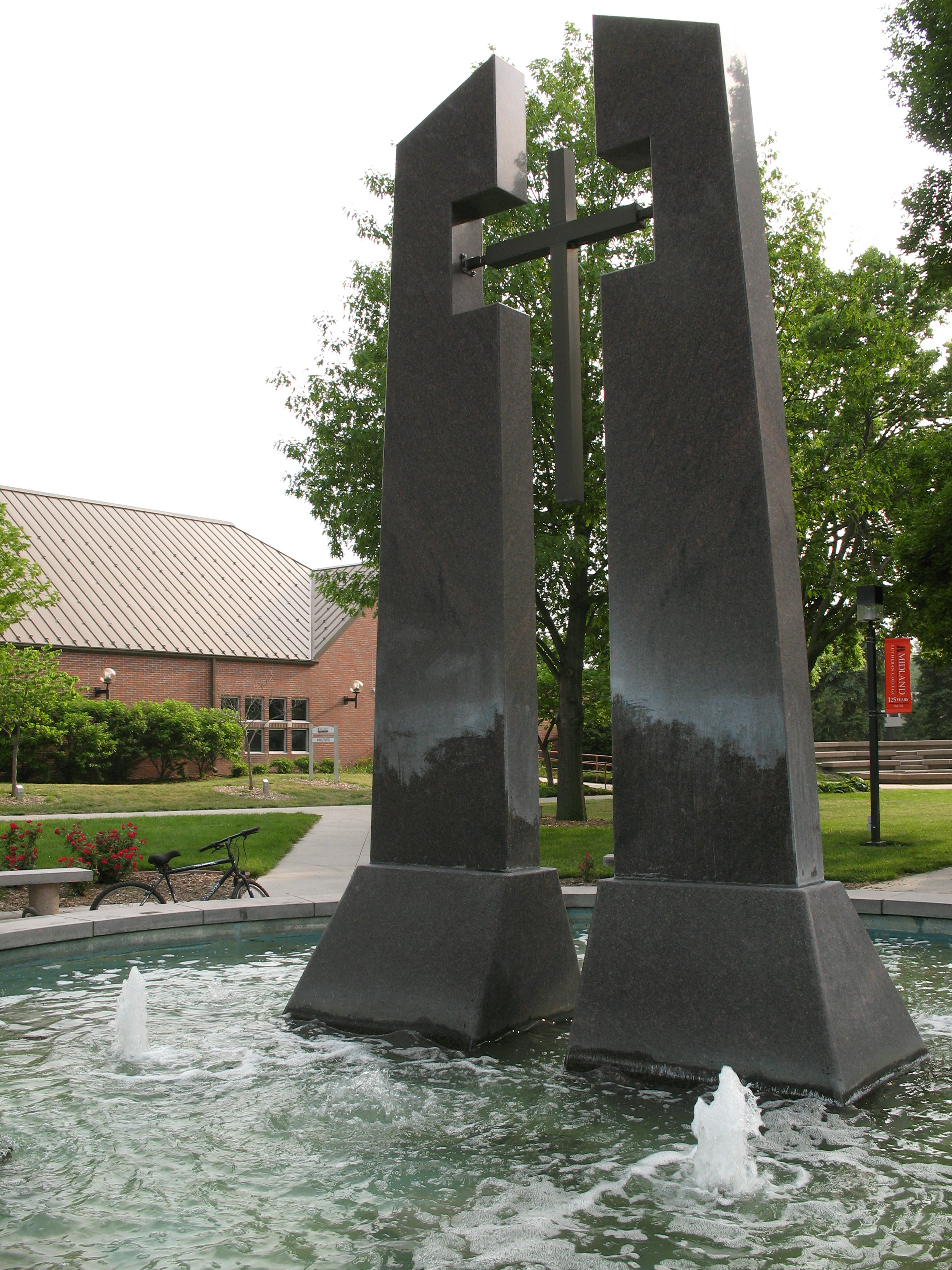 The fountain on the Midland Lutheran campus.